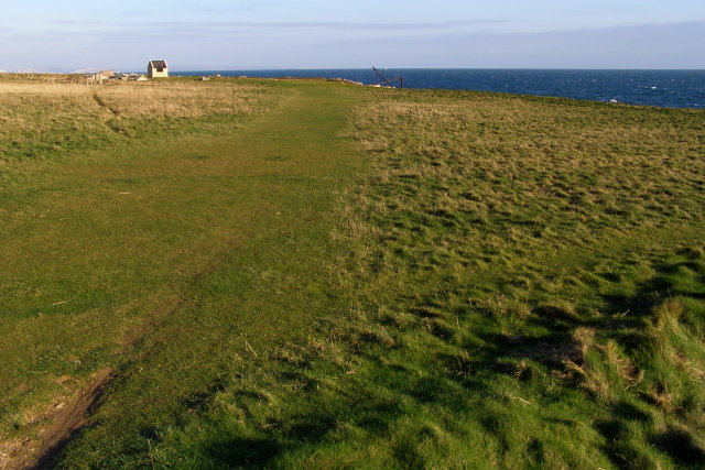 Coastal lawn, Broad Ope The coast to the east of Portland Bill is known as Broad Ope. This grassy lawn is on the clifftop between Butts Quarries and Cave Hole. The small building on the left is next to a small disused quarry. The land surface slopes gently downhill to the cliff edge, with the topsoil of the slope lying above the raised beach deposits. The coastal path follows the well-worn route across the grass.